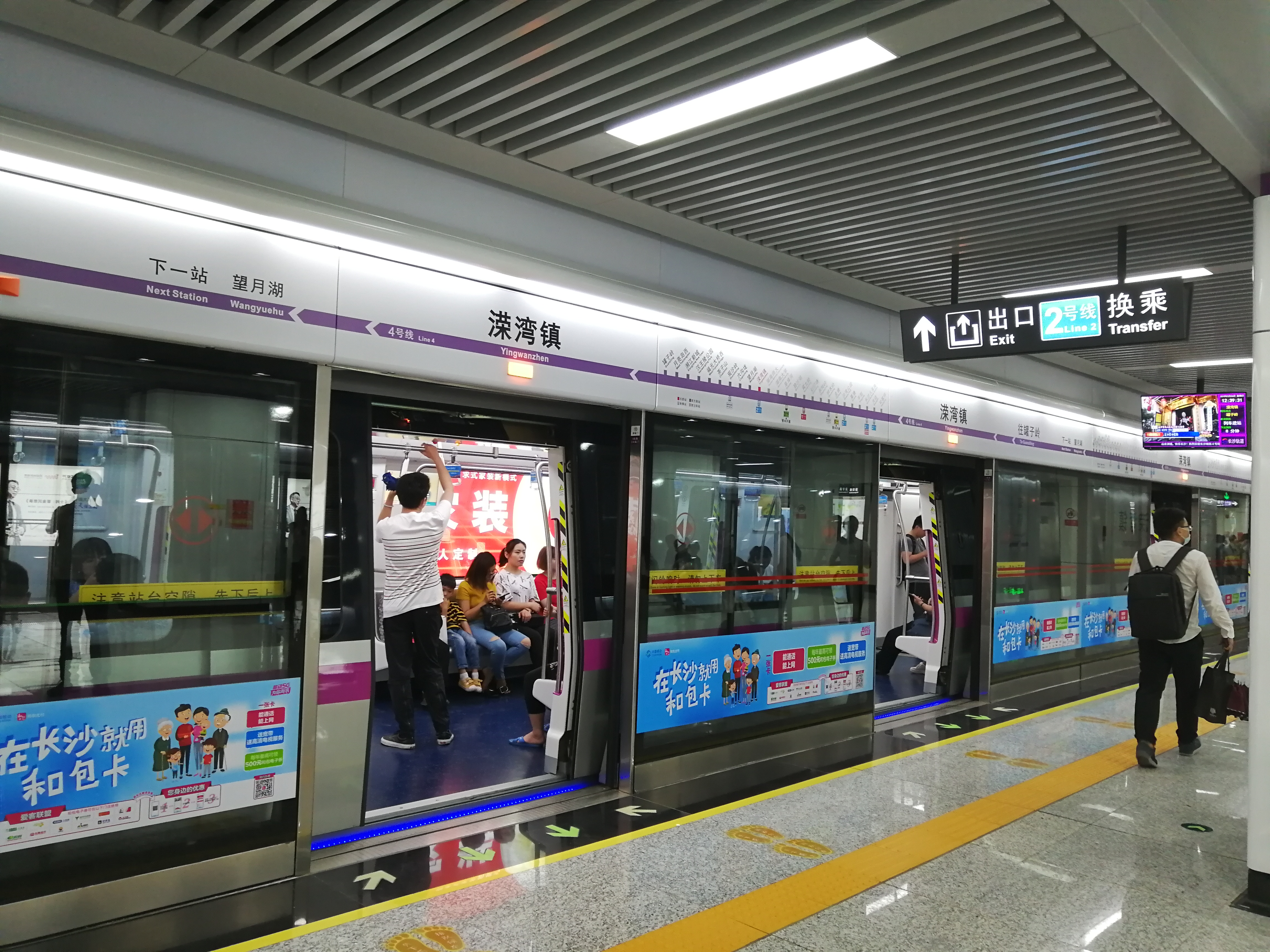 Yingwanzhen Station of L4